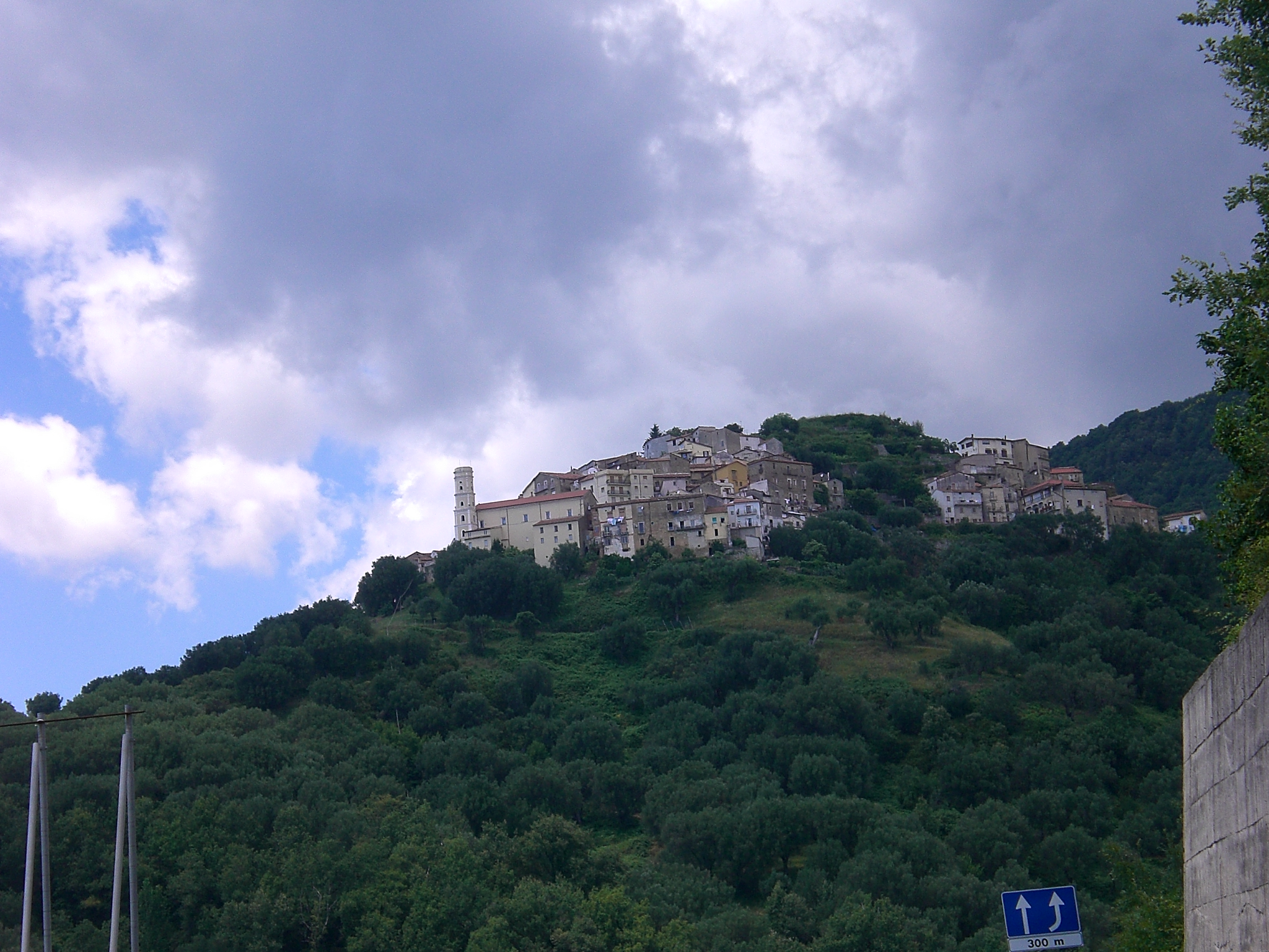 View of Cuccaro Vetere. In Cilento and Vallo di Diano National Park — in Campania.